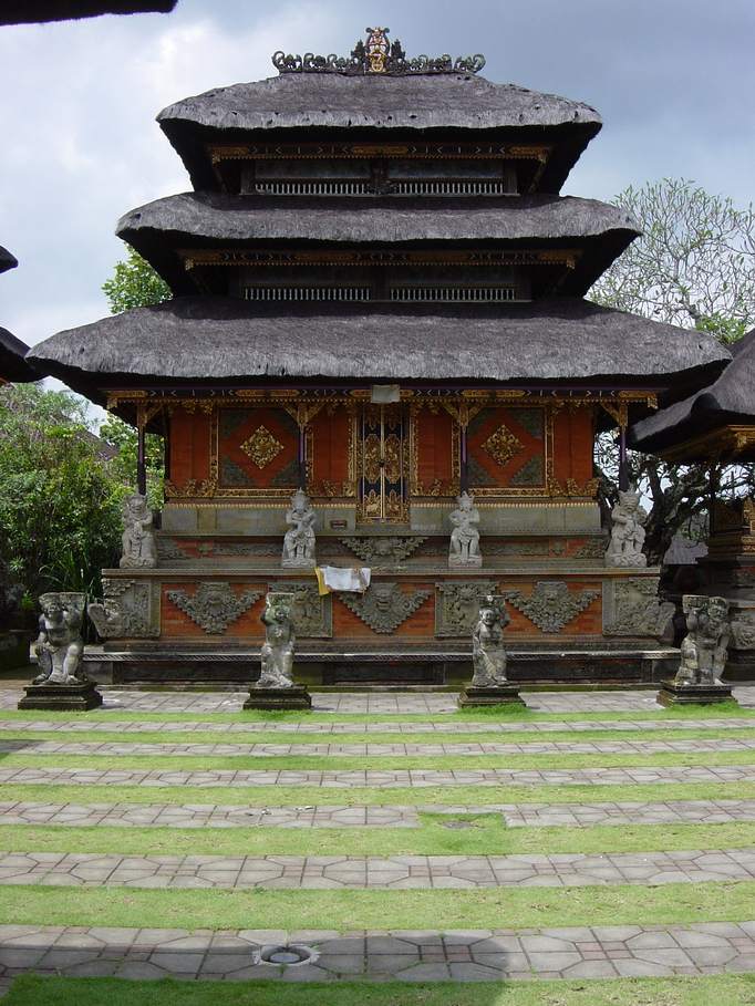 Shrine at Pura Puseh Temple in Batuan, near Ubud on Bali.DSC05170